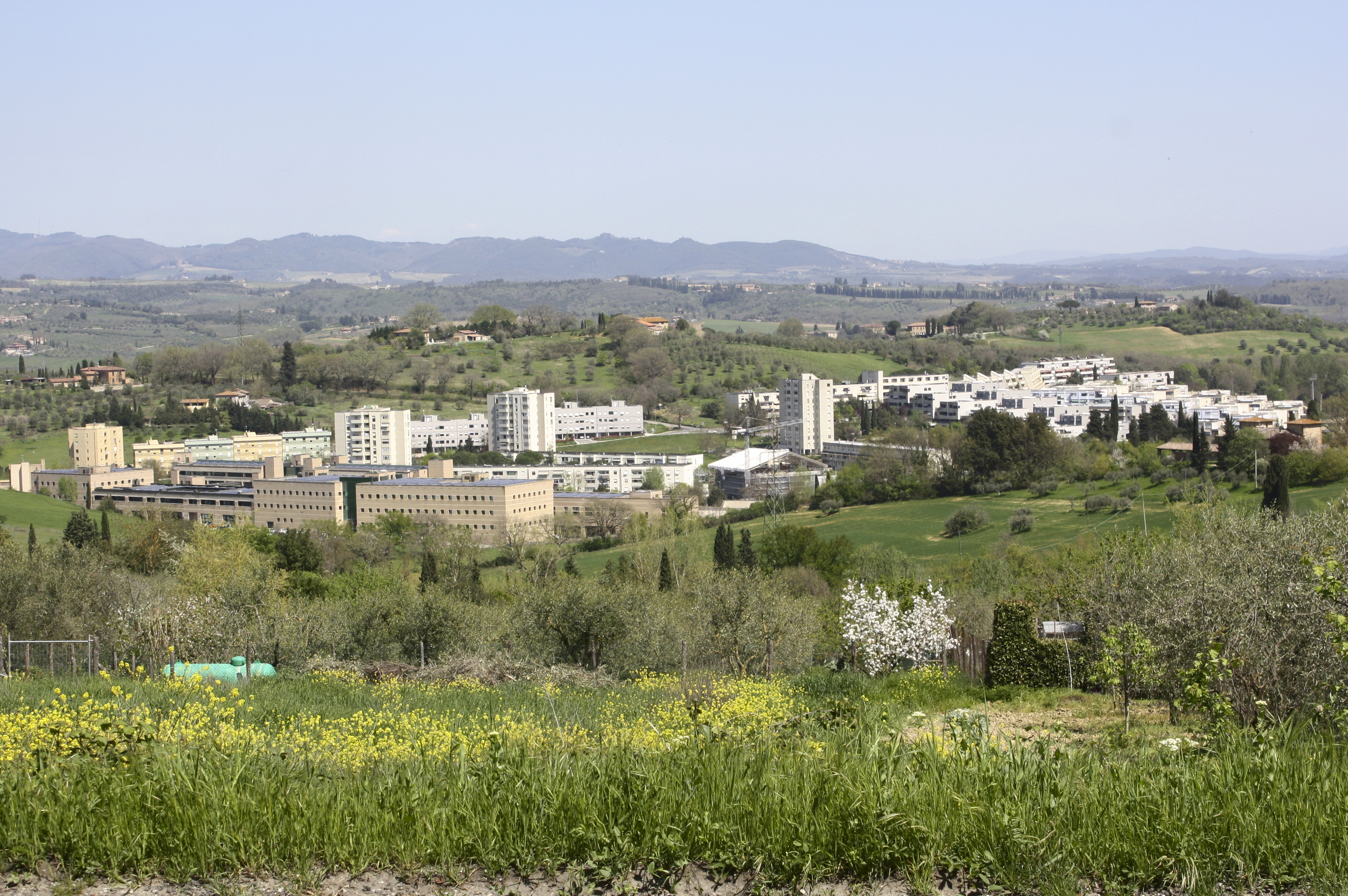 San Miniato, hamlet of Siena, Province of Siena, Tuscany, Italy